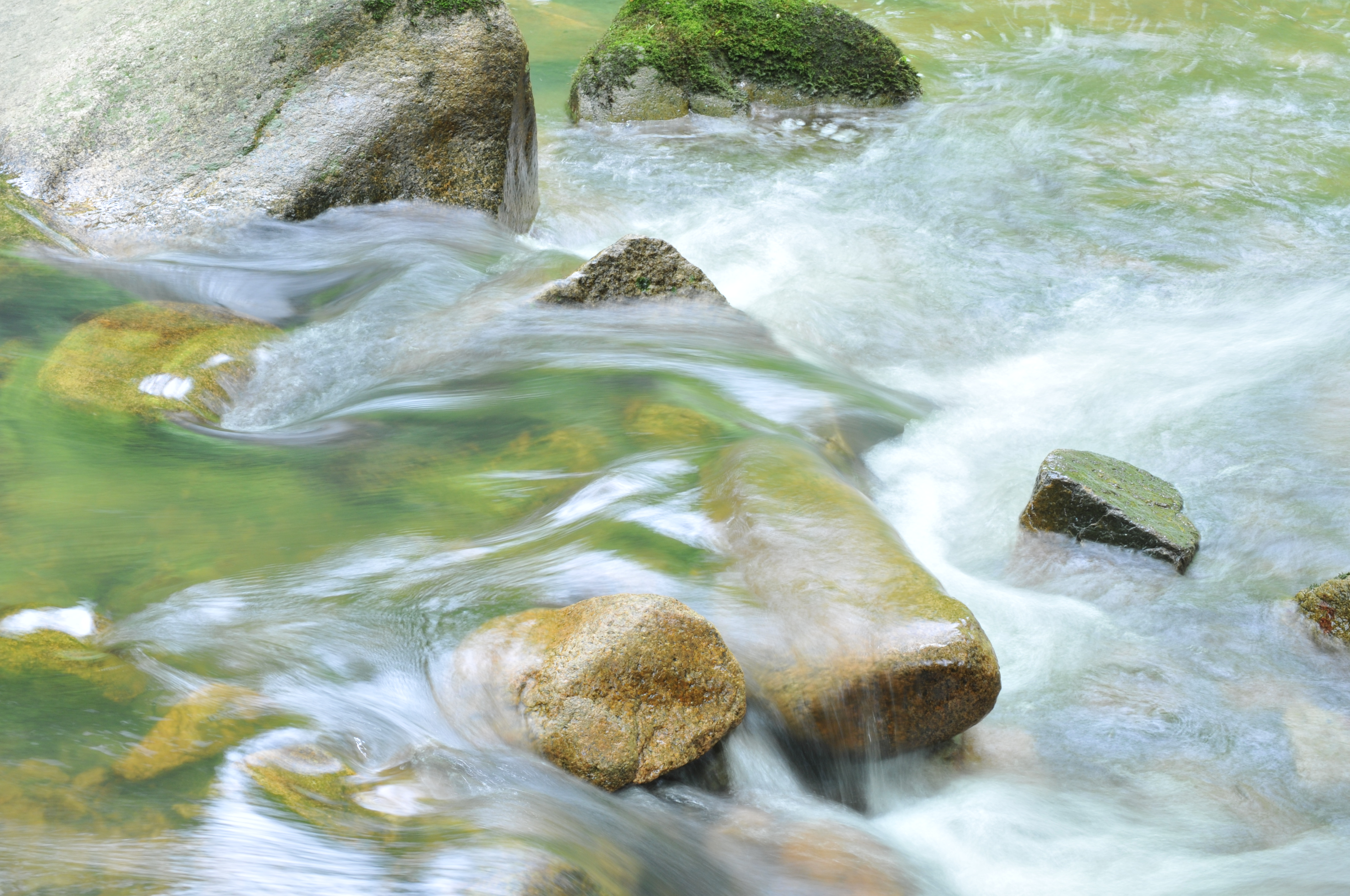 Gou-kei stream